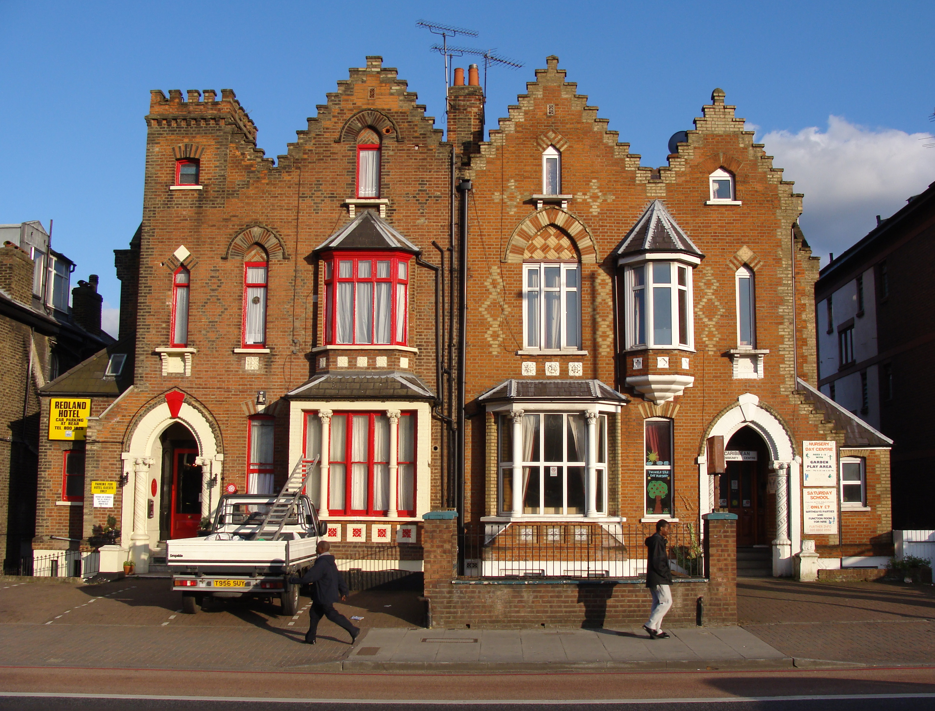 Pair of demi-detached houses on Seven Sisters Road, London. Example of stepped gables. The Redland Hotel, the left house of the pair is at 418 Seven Sisters Rd London, Greater London N4 2LX. It is in the London borough of Hackney.